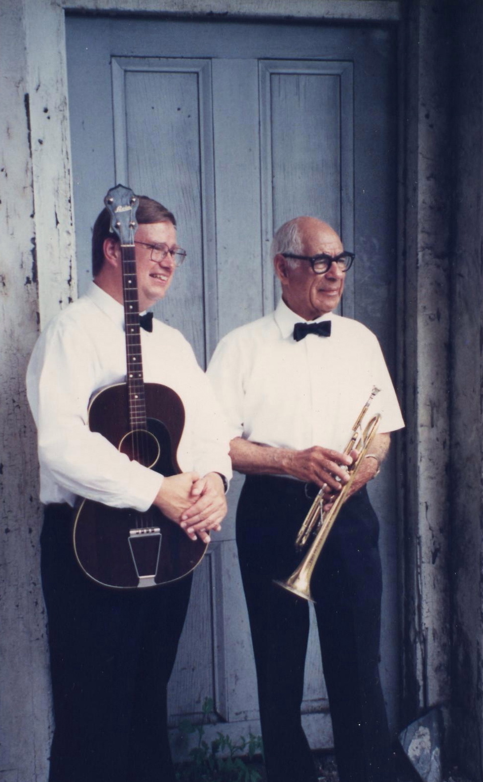 Musicians Lars Edegran and Lionel Ferbos with trumpet, in front of a French Quarter doorway